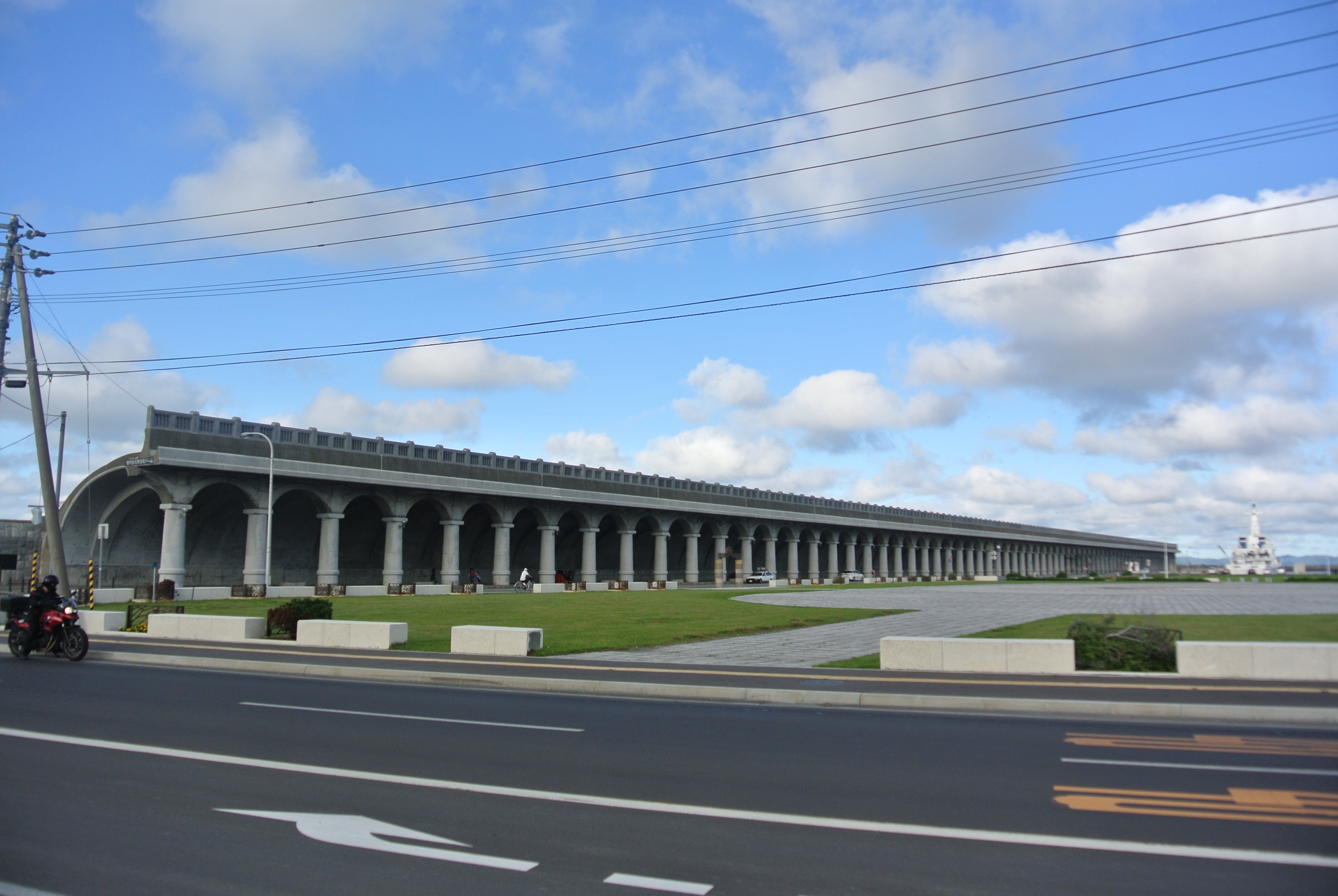 Wakkanai Breakwater Dome